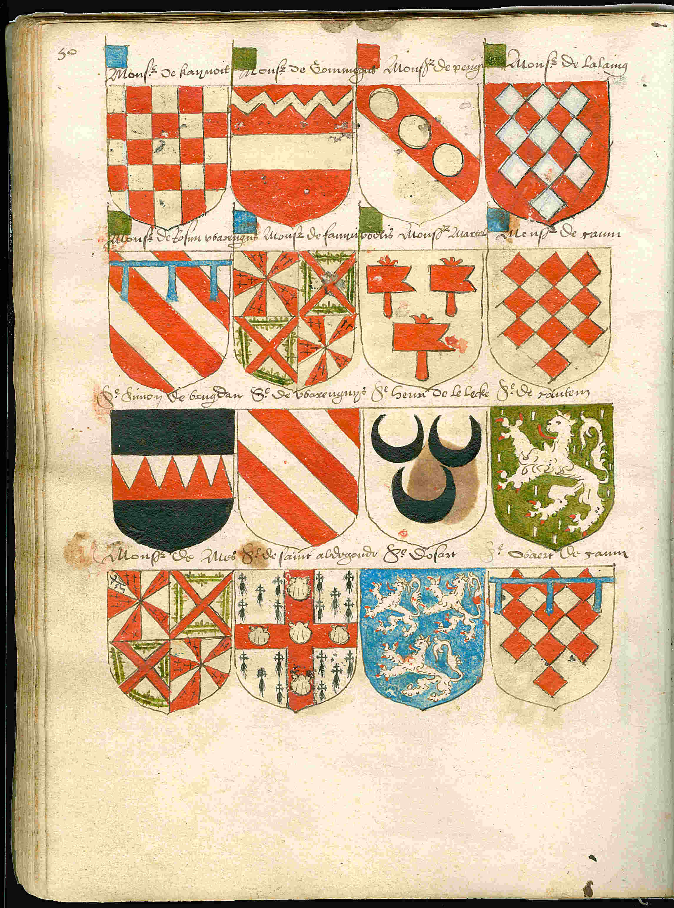 Page 50 from a copy of the Beyeren armorial / Wapenboek Beyeren from ca. 1600. The original Beyeren armorial from 1405 can be viewed at the website of the KB